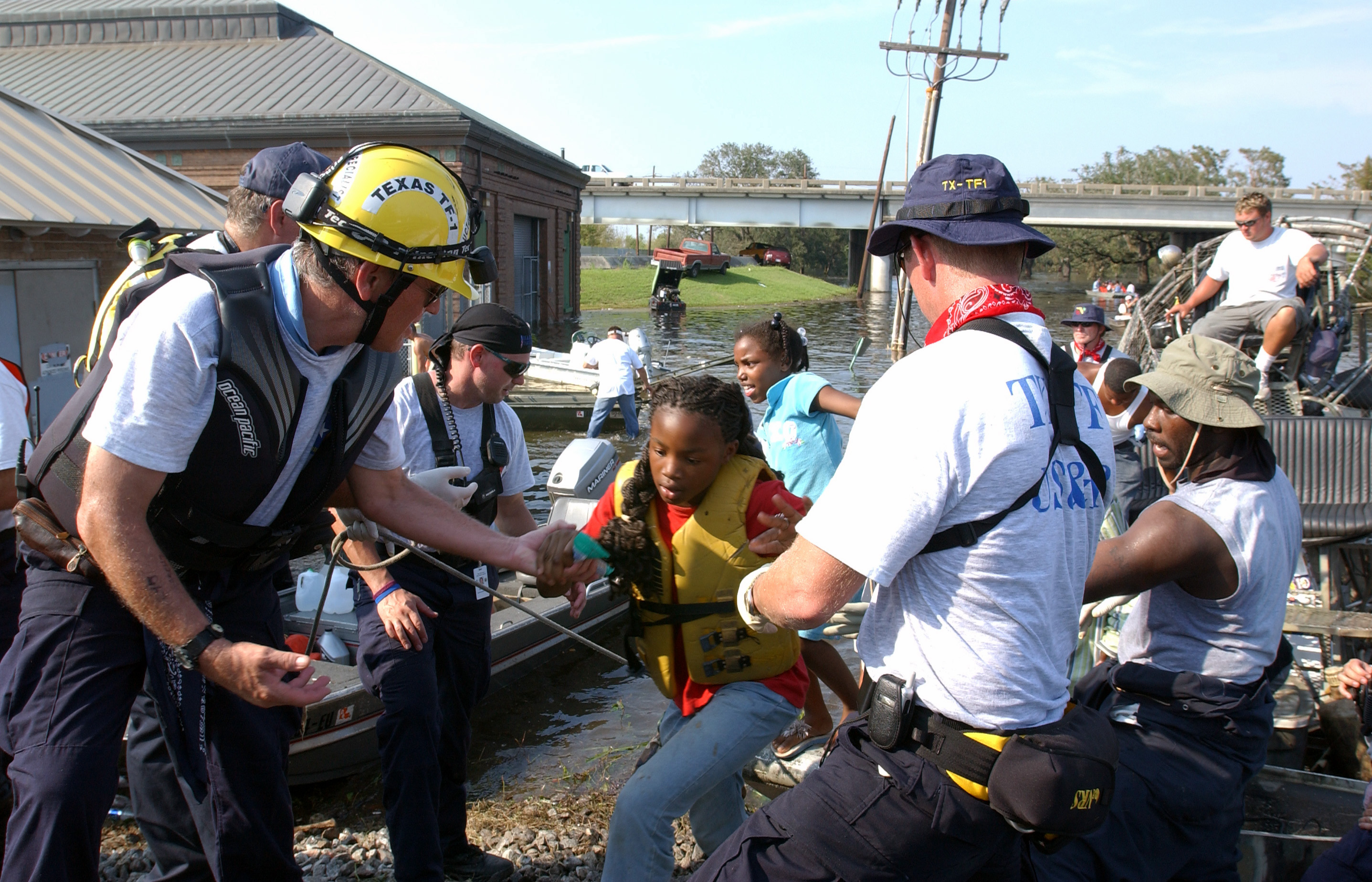 New Orleans, LA, August 31, 2005 -- Members of the FEMA Urban Search and Rescue task forces continue to help residents impacted by Hurricane Katrina. These residents were transported to the area from various neighborhoods and need to cross over the tracks to get on a second boat which will bring them to dry land. Photo by Jocelyn Augustino/FEMA